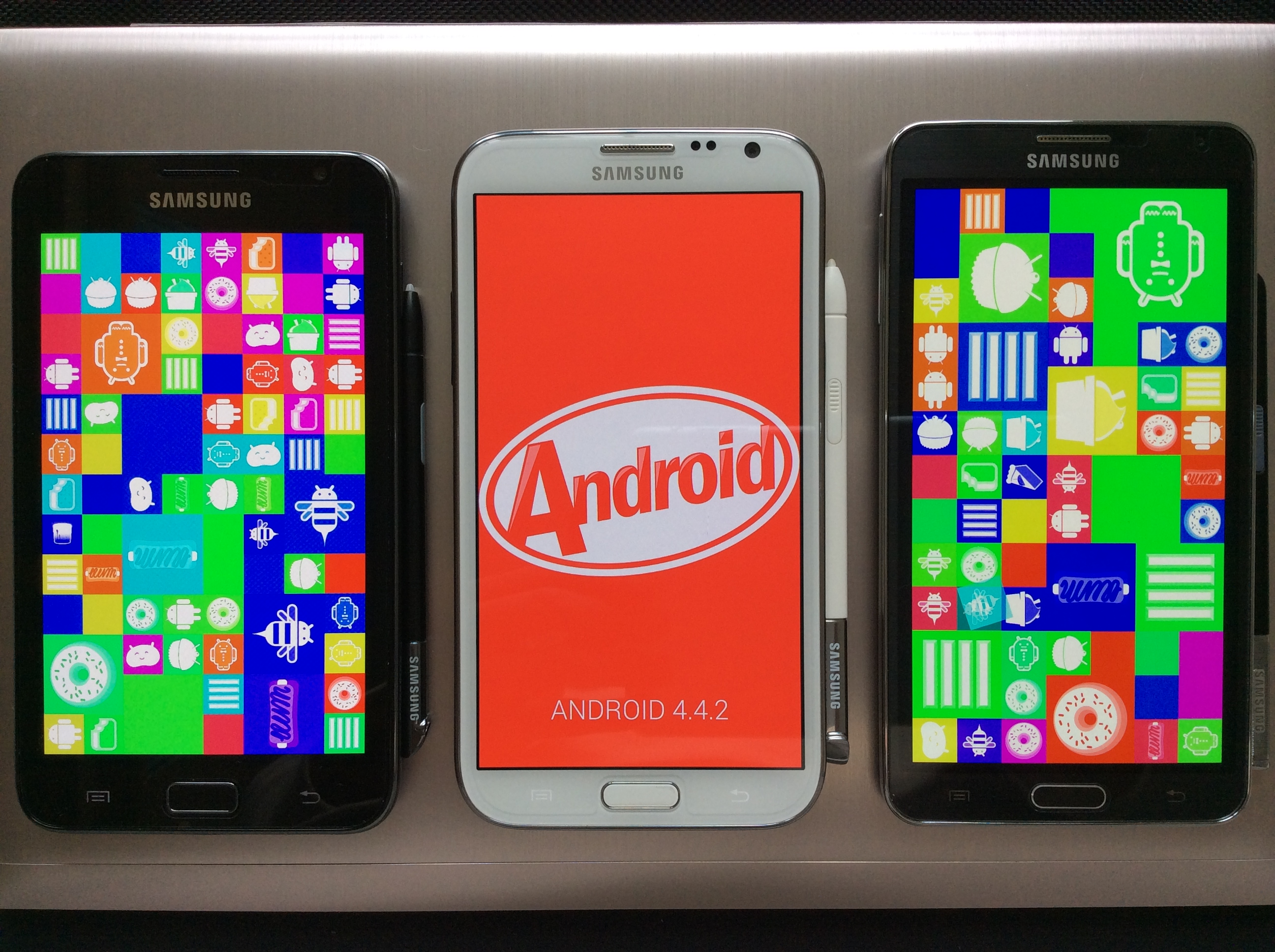 Samsung Galaxy Note series (Original, II, and 3)